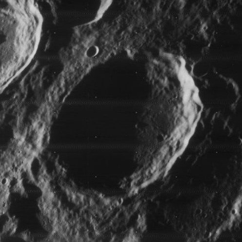 Oblique view of Ansgarius, on the moon.